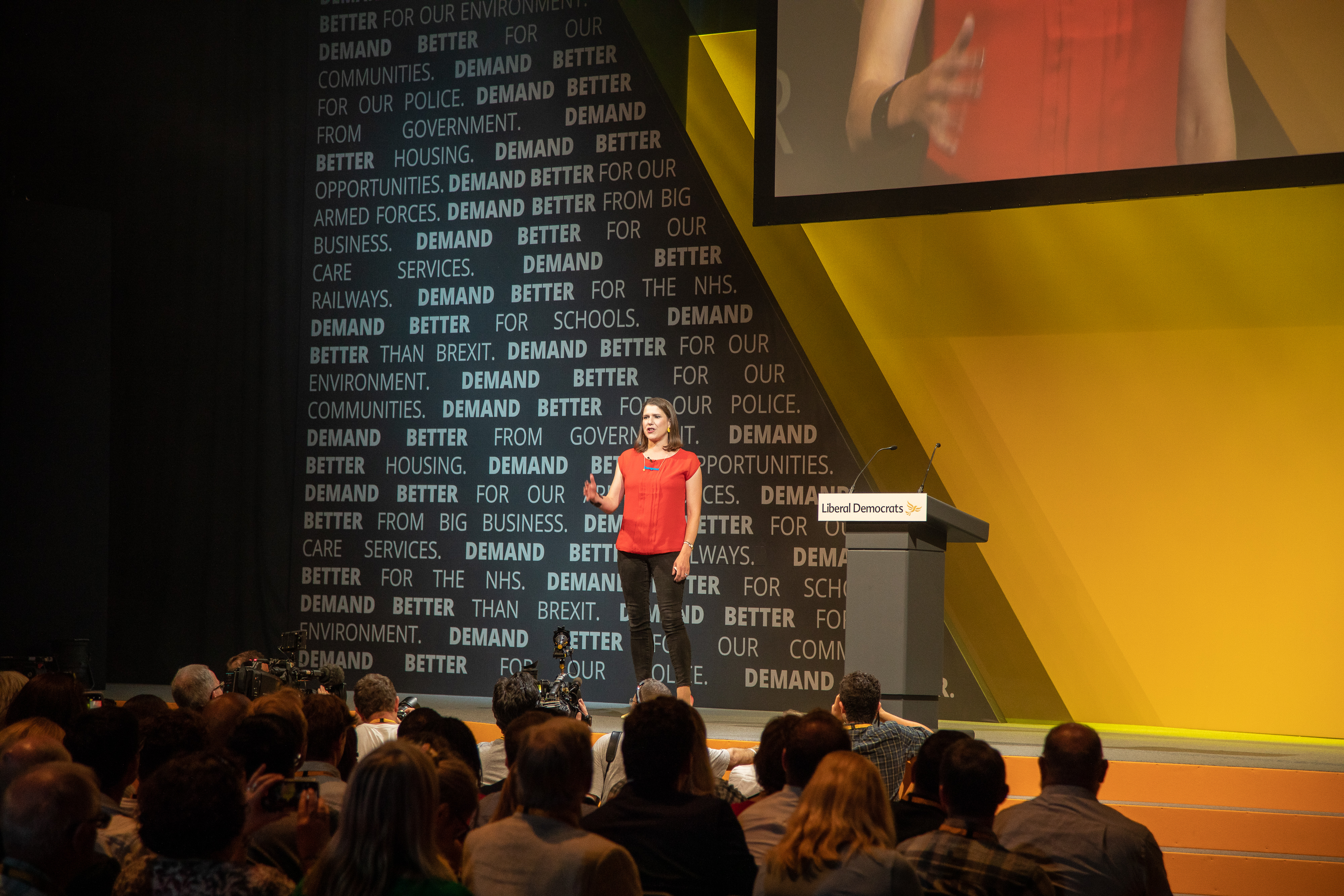 Jo Swinson at the Lib Dem party autumn conference 2019.